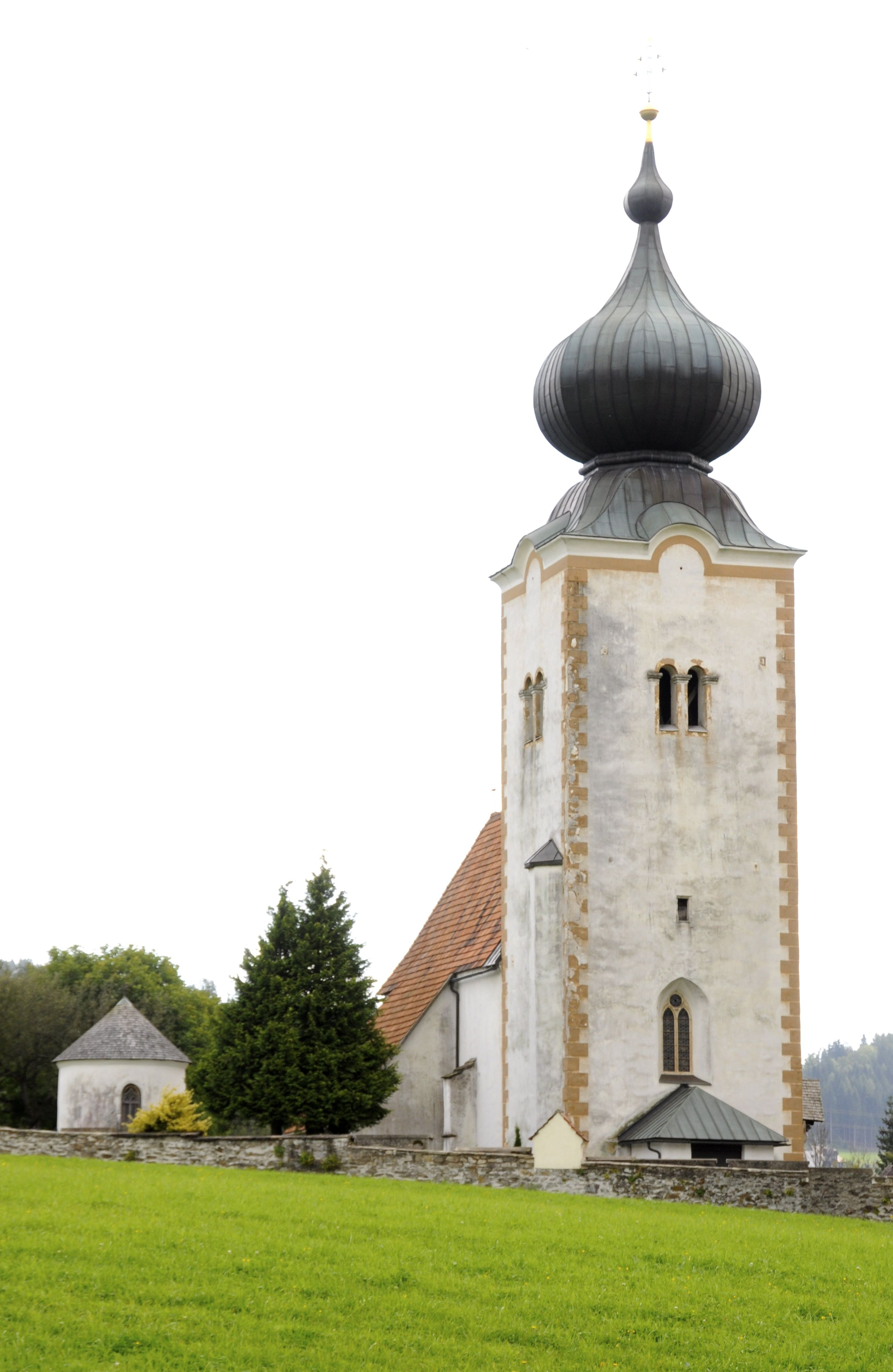 Parish church Saints Peter and Paul at Saint Peter, municipality Reichenfels, district Wolfsberg, Carinthia / Austria / EU